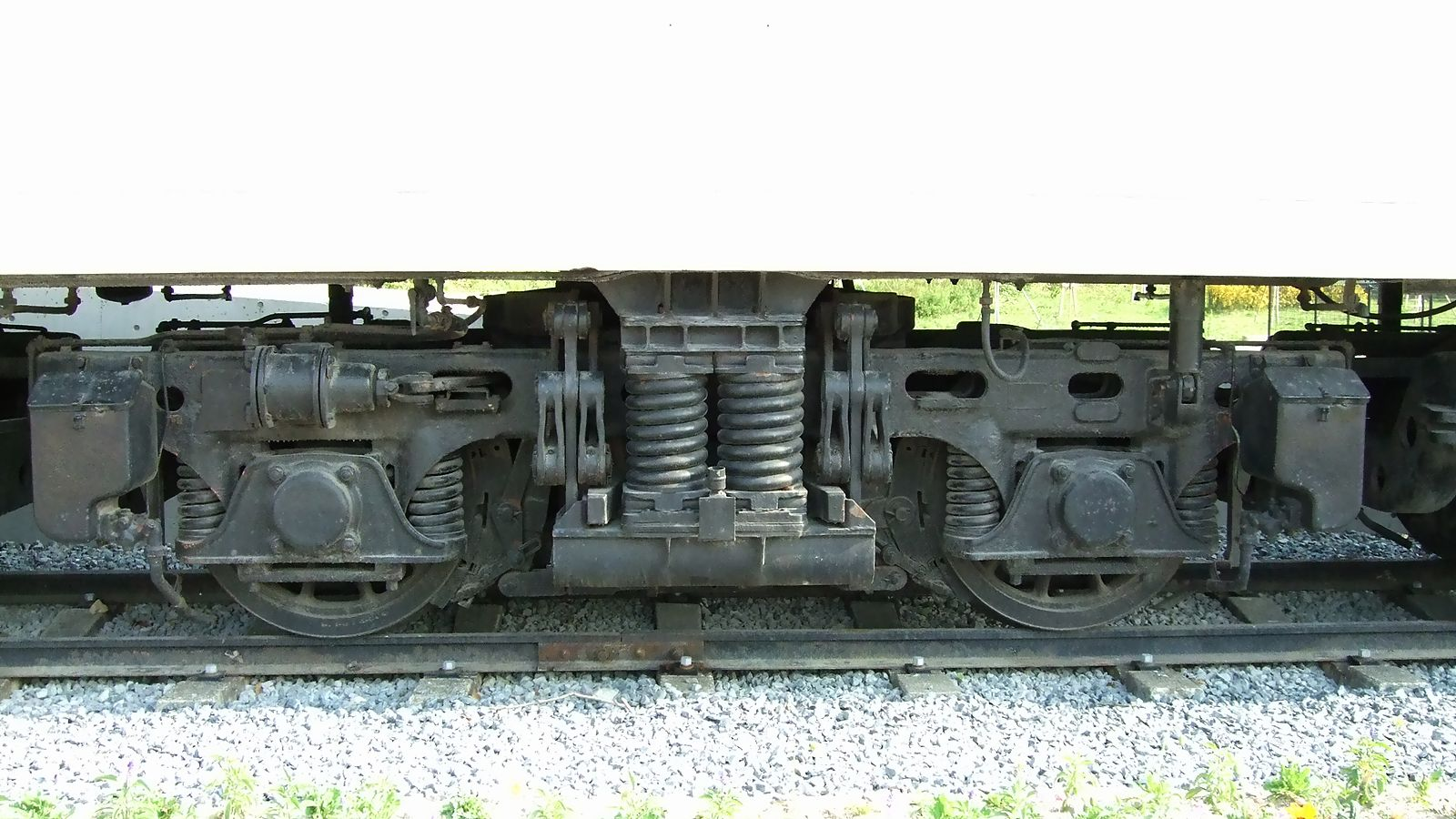 Japanese National Railways truck typeDT118.